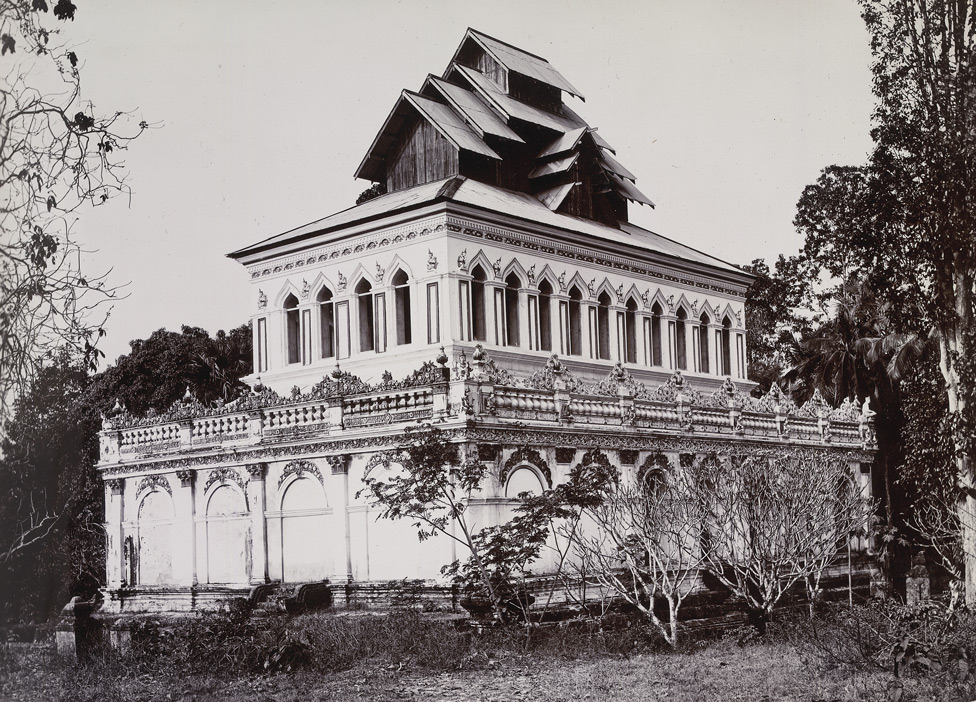 Photograph of the Maha Kalyani Sima hall in Pegu (Bago), Burma (Myanmar), from the Archaeological Survey of India Collections: Burma Circle, 1907-13. The photograph was taken by an unknown photographer of the Burma Archaeological Survey. Bago, the fourth largest city in Burma, is about 80 kms north-east of Rangoon and was once ancient Hanthawadi, the capital of a Mon kingdom. It is said to have been founded in the 6th century by two Mon princes from Thaton, but achieved its greatest prosperity in the later Mon dynastic period of 1369-1539. To Europeans, it was the important seaport of Pegu. Today little remains of its regal past. The Maha Kalyani Sima (or Maha Kalyani Thein) is a Sacred Hall Of Ordination built by King Dhammazedi in 1476. He built hundreds of such simas or halls for the ordination of monks all over the country, modelling them after Sri Lankan plans. It was burnt in 1599 by a Portuguese plunderer, rebuilt, then destroyed again during the sacking of Pegu in 1757 by King Alaungpaya who wished to vanquish the resurgent Mon. The building's turbulent history therafter encompassed fires and earthquakes, and finally it was levelled in the earthquake of 1930. The present building dates from 1954.